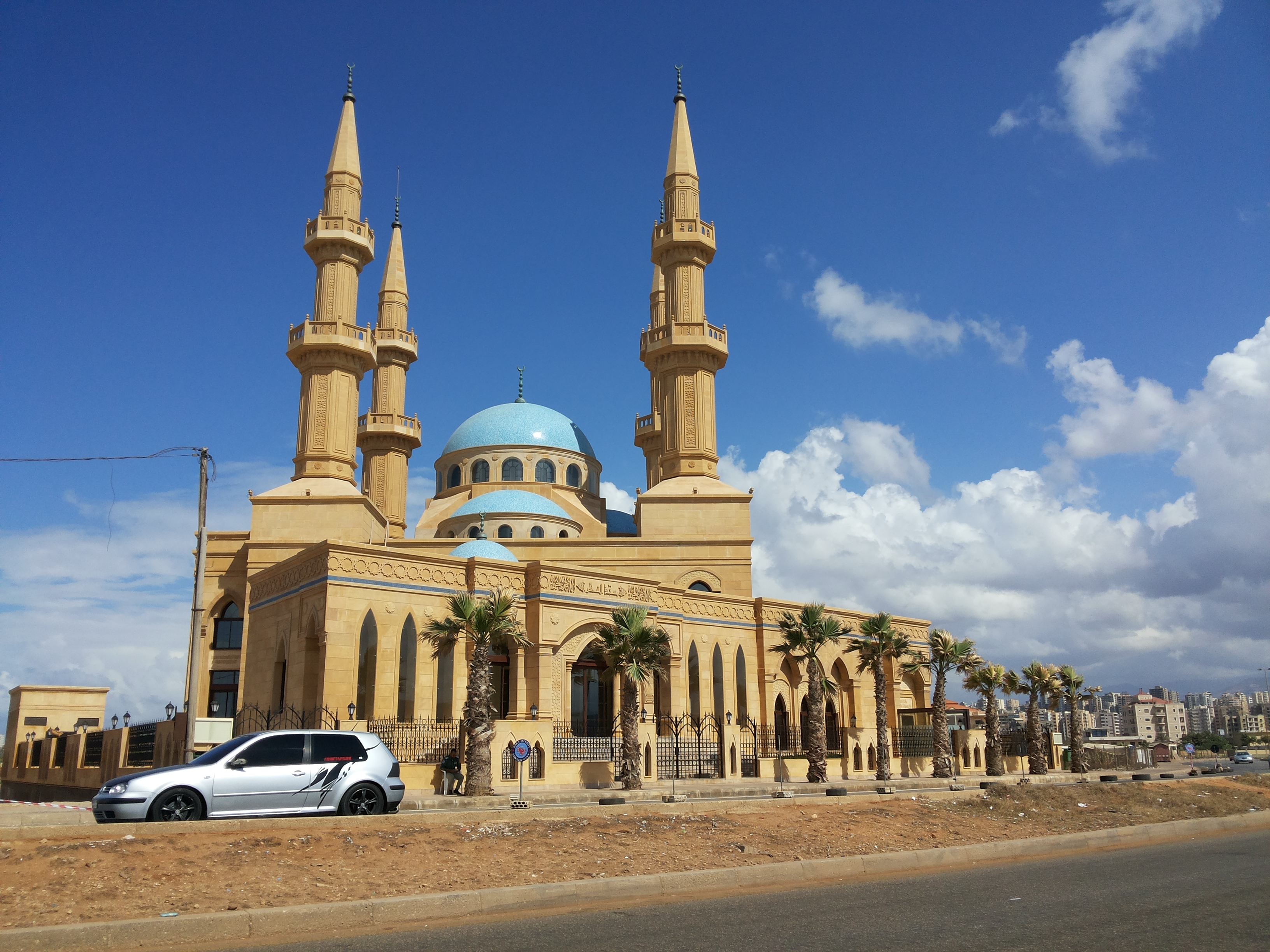 Mosque in Tripoli, Lebanon